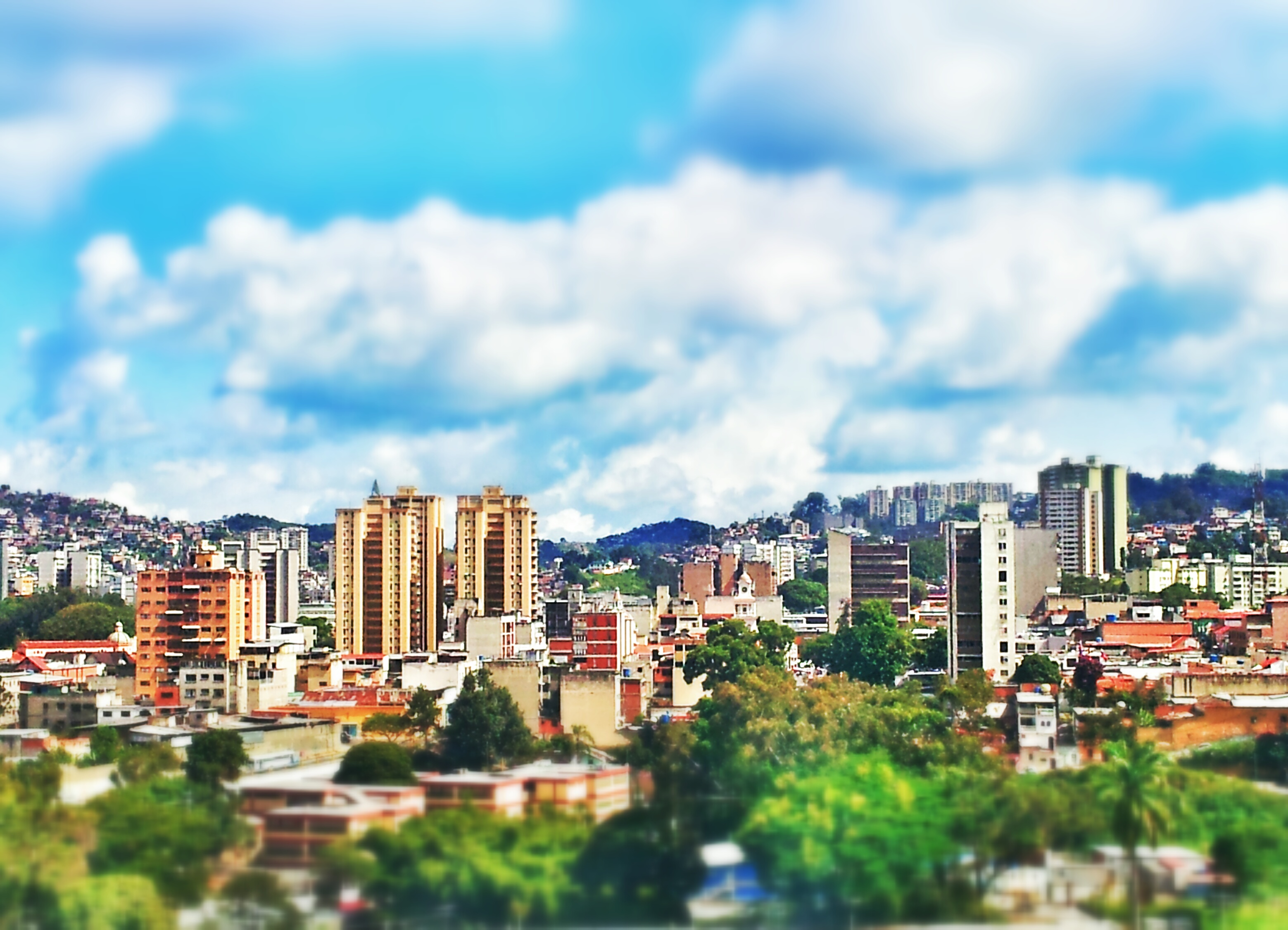 Casco central de Los Teques